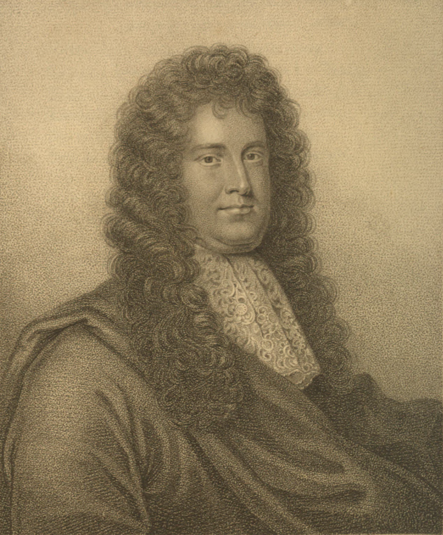 A portrait of George Granville, Lord Lansdowne, from “A Catalogue of the Royal and Noble Authors,” by Horatio Walpole.